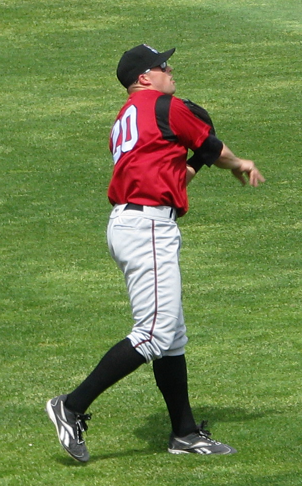 Drew Anderson, a left fielder for the minor league Nashville Sounds, having just thrown a ball in a game at Isotopes Park on May 9, 2010